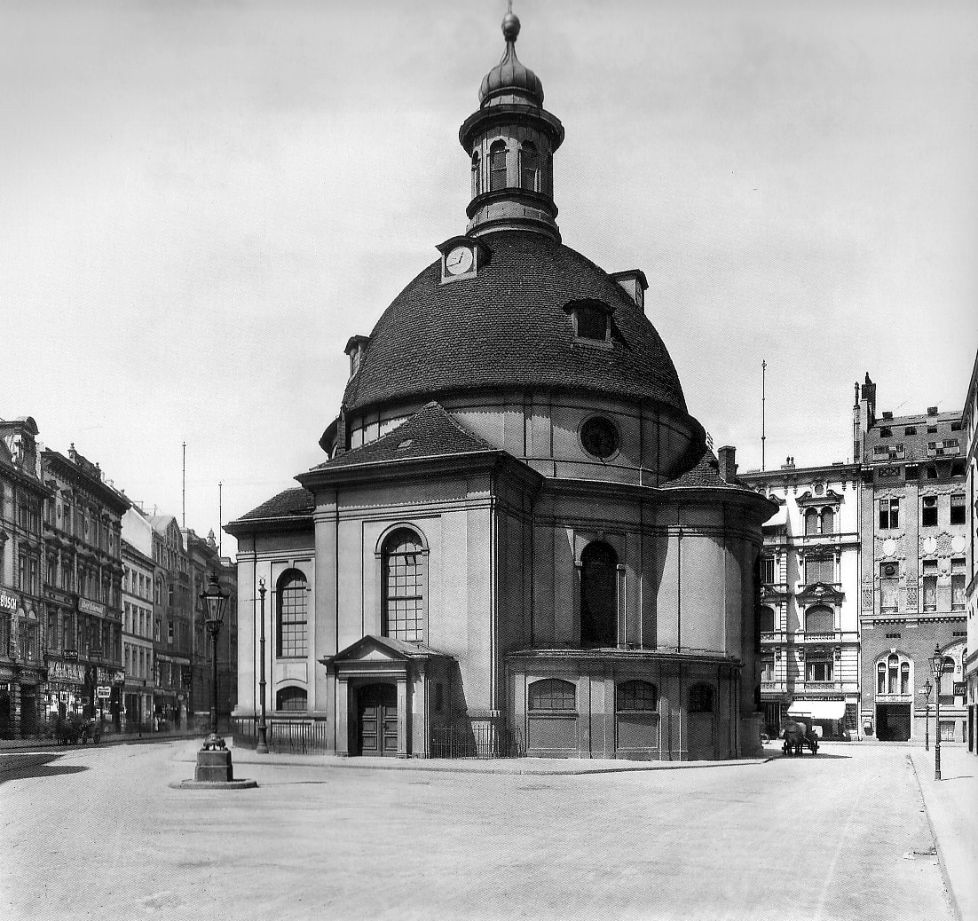 The Bethlehem Church in Mauerstrasse in Berlin-Mitte (Germany). Erected 1735-37, destroyed in World War II.